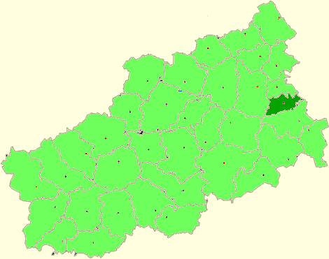 Tver Oblast map by Al Silonov